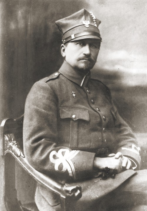 Józef Dowbor-Muśnicki (1867-1937) during Greater Poland uprising